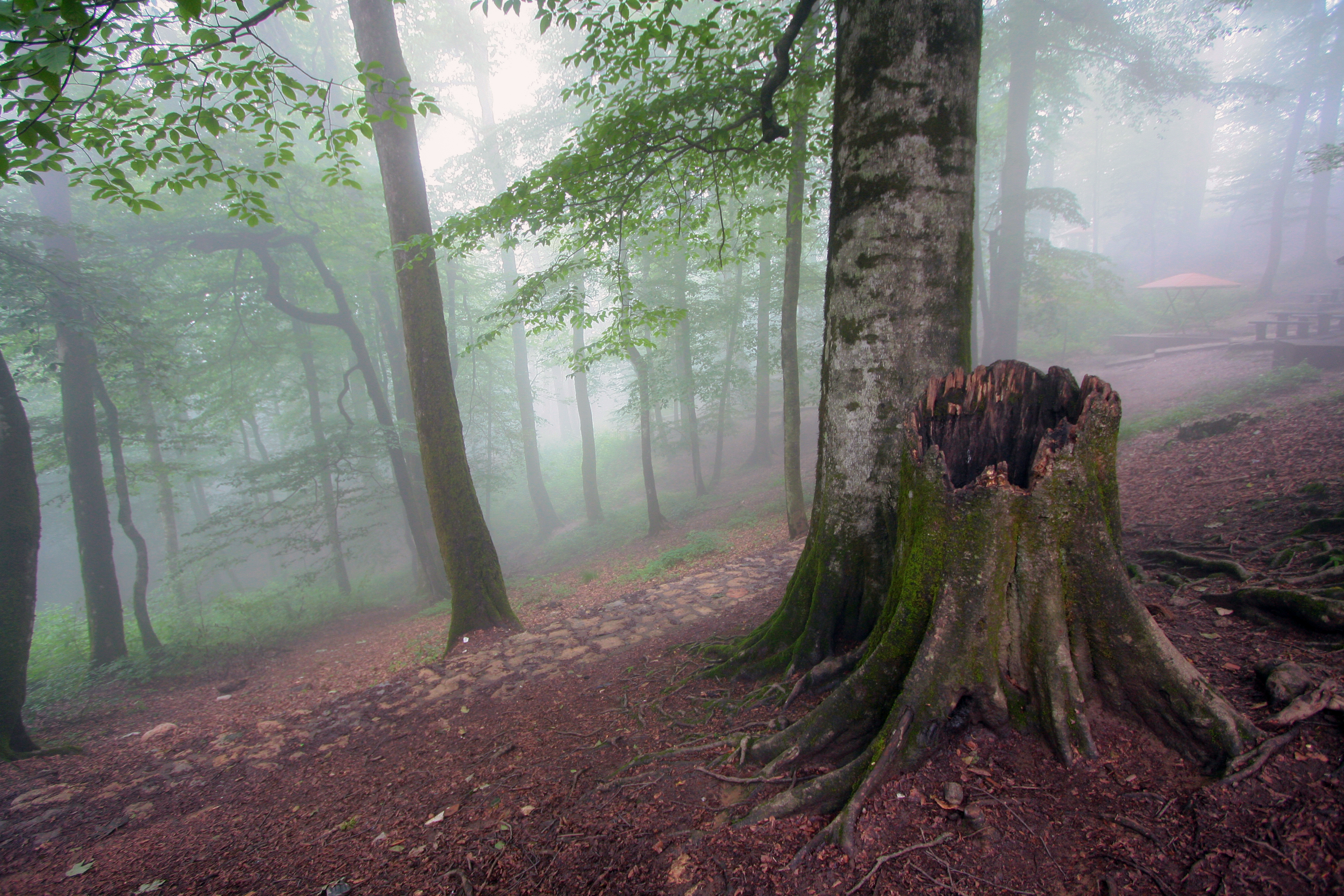 Shahrak-e Namak Abrud (Persian: شهرك نمك ابرود, also Romanized as Shahrak-e Namak Ābrūd; also known as Namak Abrood, Namak Ābrūd, Namak Ābrūd Sar, and Namakrūd Sar)is a village in Kelarestaq-e Gharbi Rural District, in the Central District of Chalus County, Mazandaran Province, Iran. At the 2006 census, its population was 354, in 71 families.